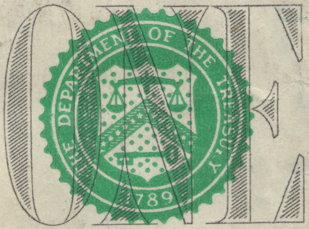 The modern seal of the United States Department of the Treasury, as printed on a series 2003A $1 bill.